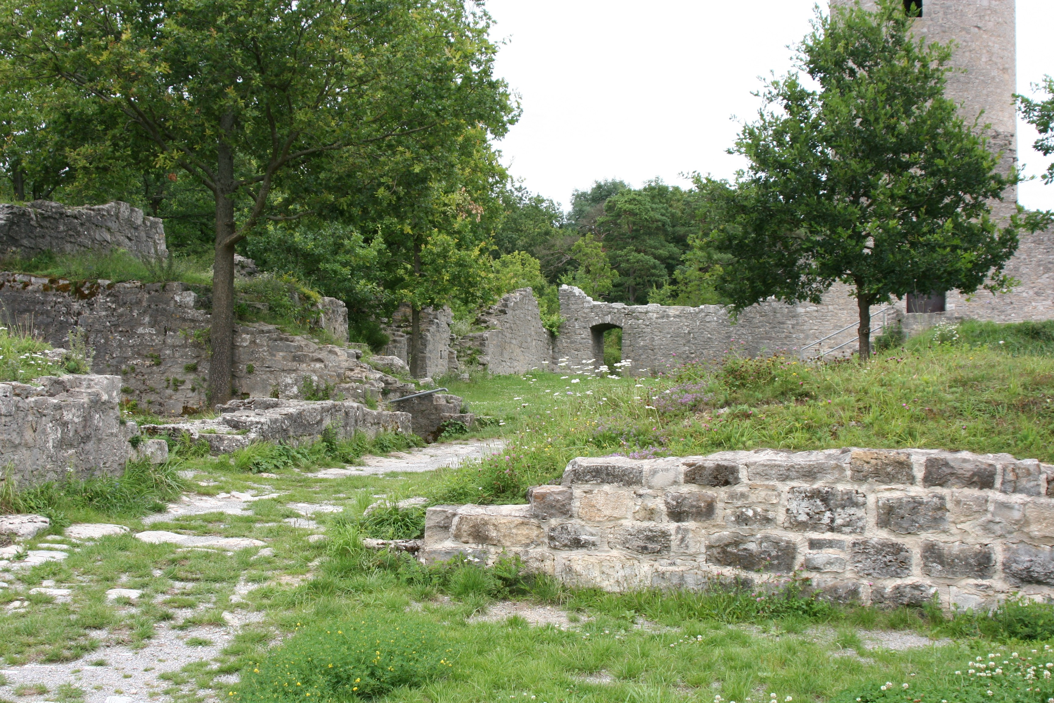 Castle ruin Reichelsburg, Interior from the West